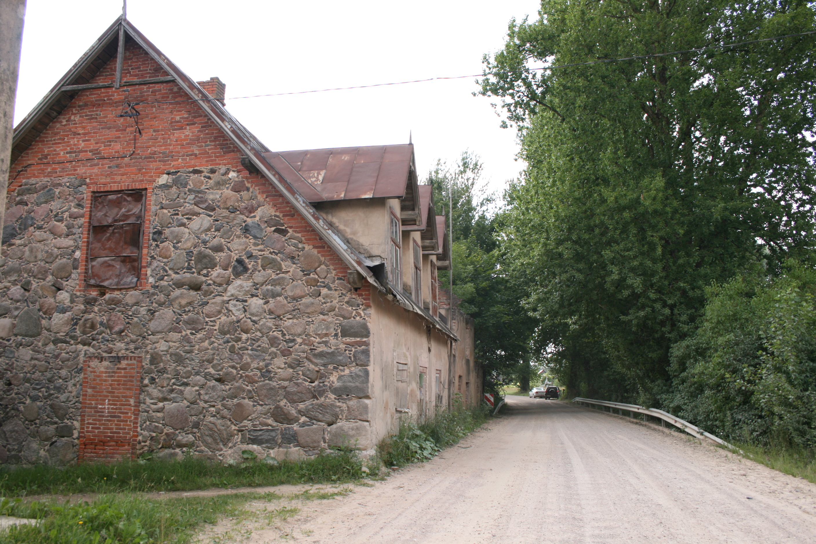 Recia water mill